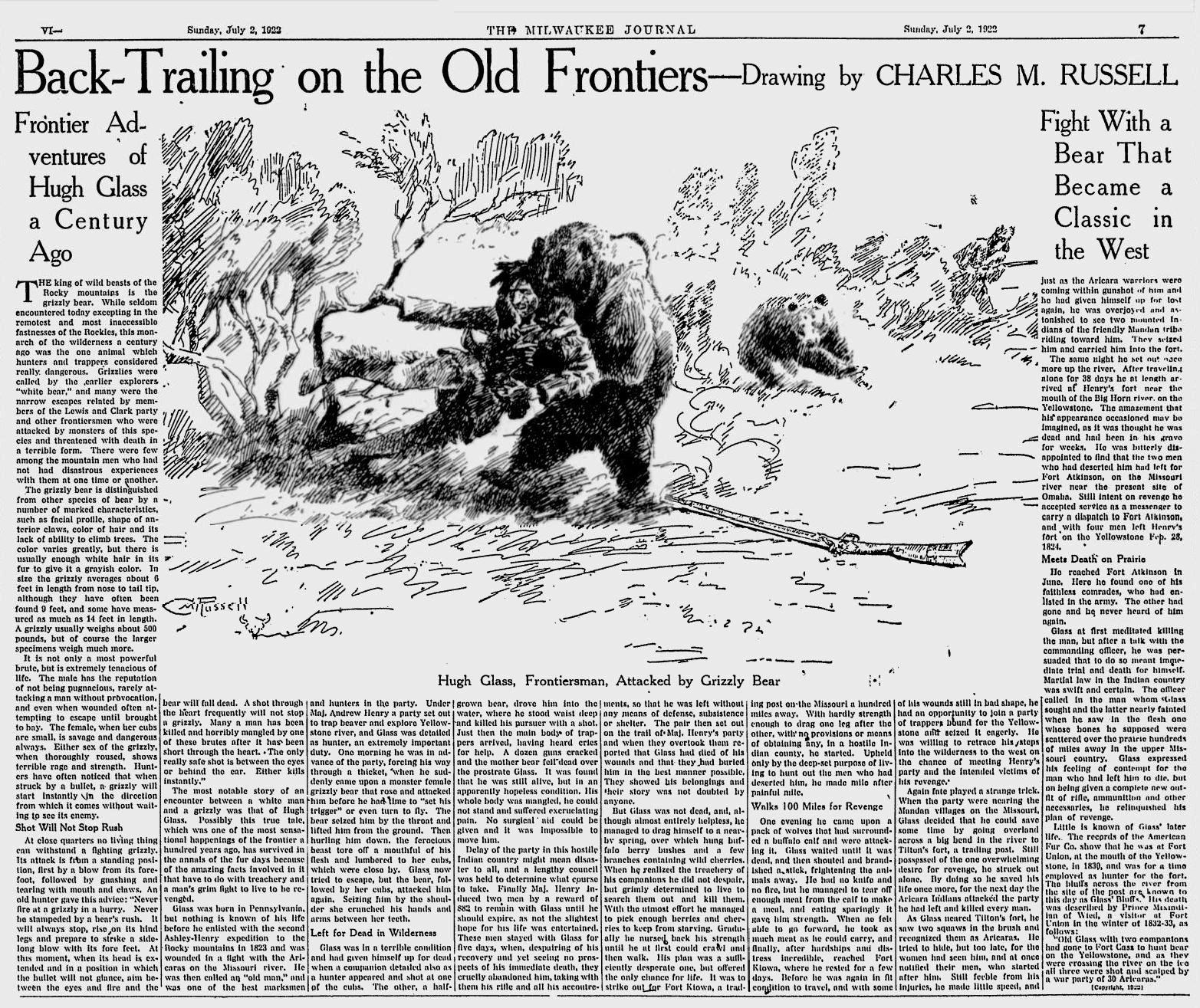 A century after the events unfolded, the Milwaukee Journal published an article about the exploits of Hugh Glass.